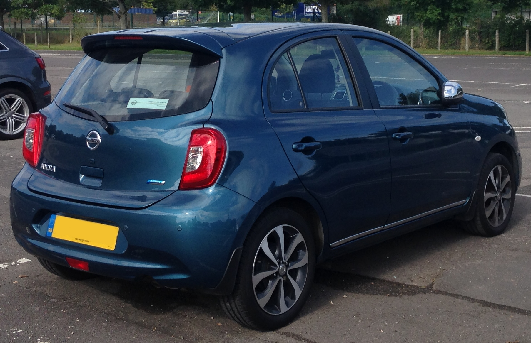 2013 Nissan Micra Tekna 1.2 Rear Taken in Weymouth, Dorset